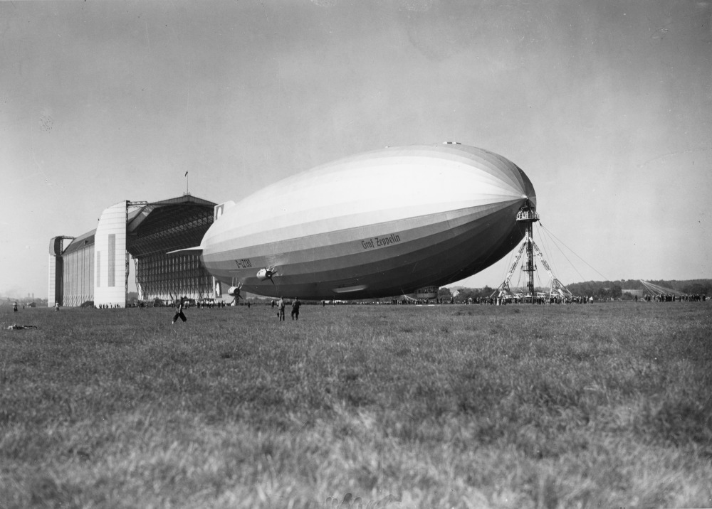 LZ 130 Graf Zeppelin II at Lowenthal 1938 on September 25, 1938